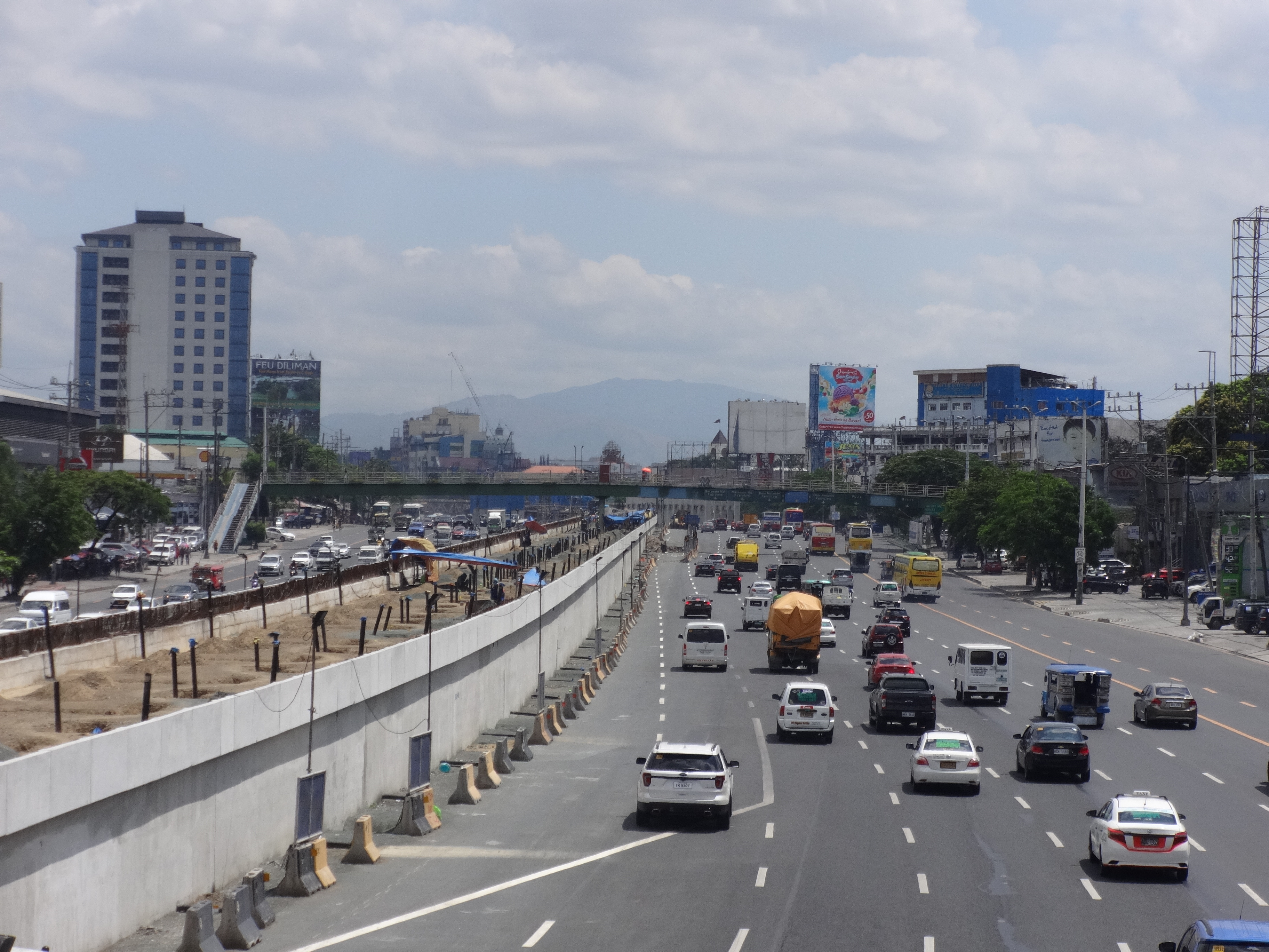 Commonwealth Avenue in Quezon City